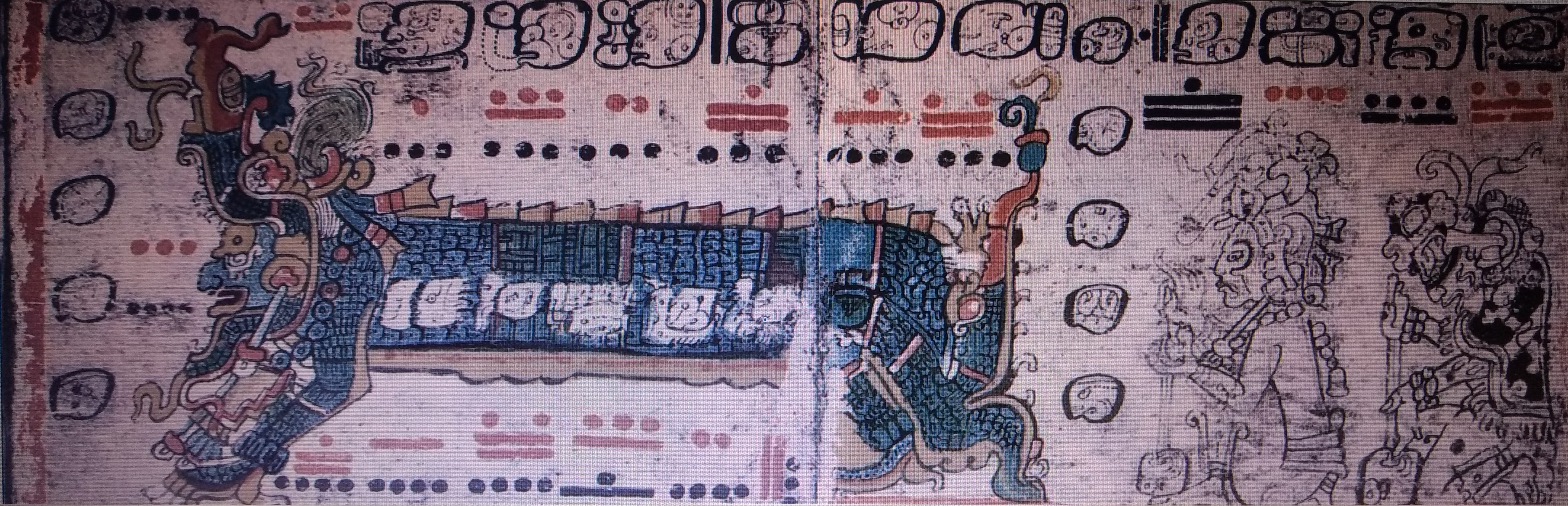 itzam